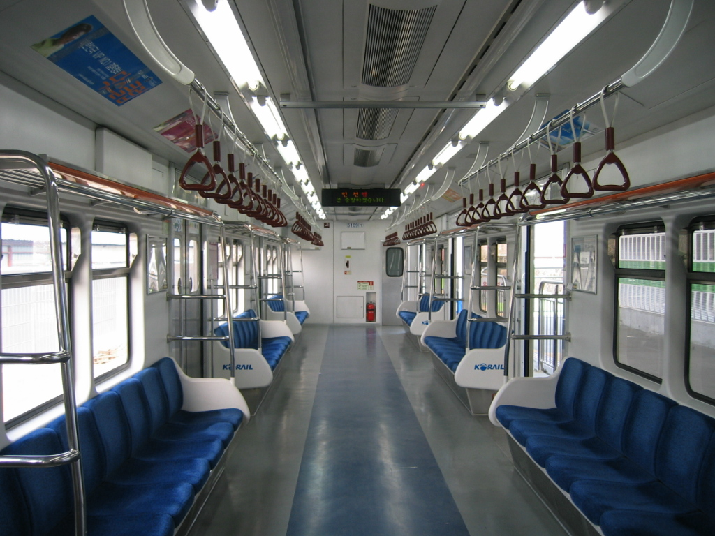 Inside of Korail EMU 5109.